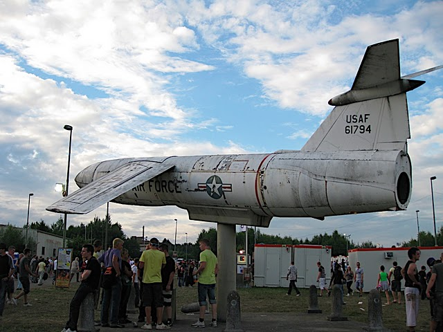 A cruise missile at display at the (former USAF) Pydna Rocket Base near Kastellaun, Germany